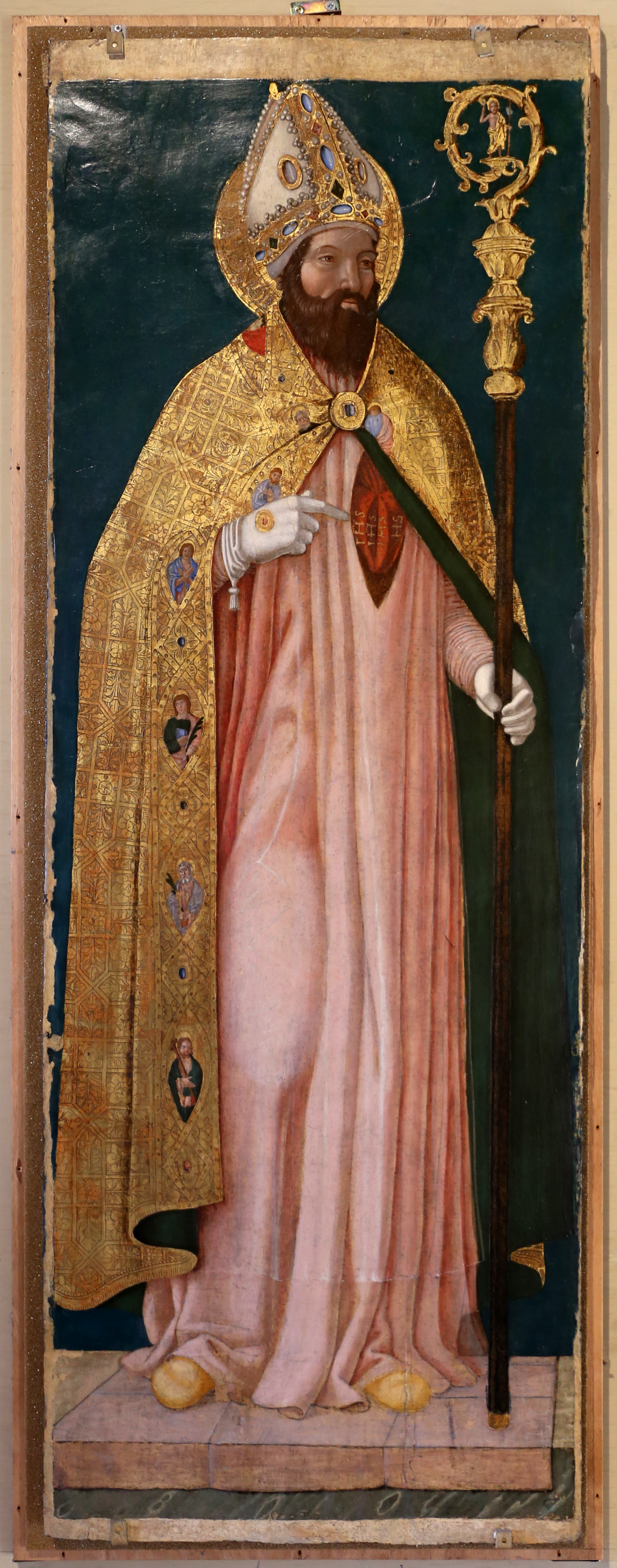 Collections of Palazzo Ducale (Mantua)